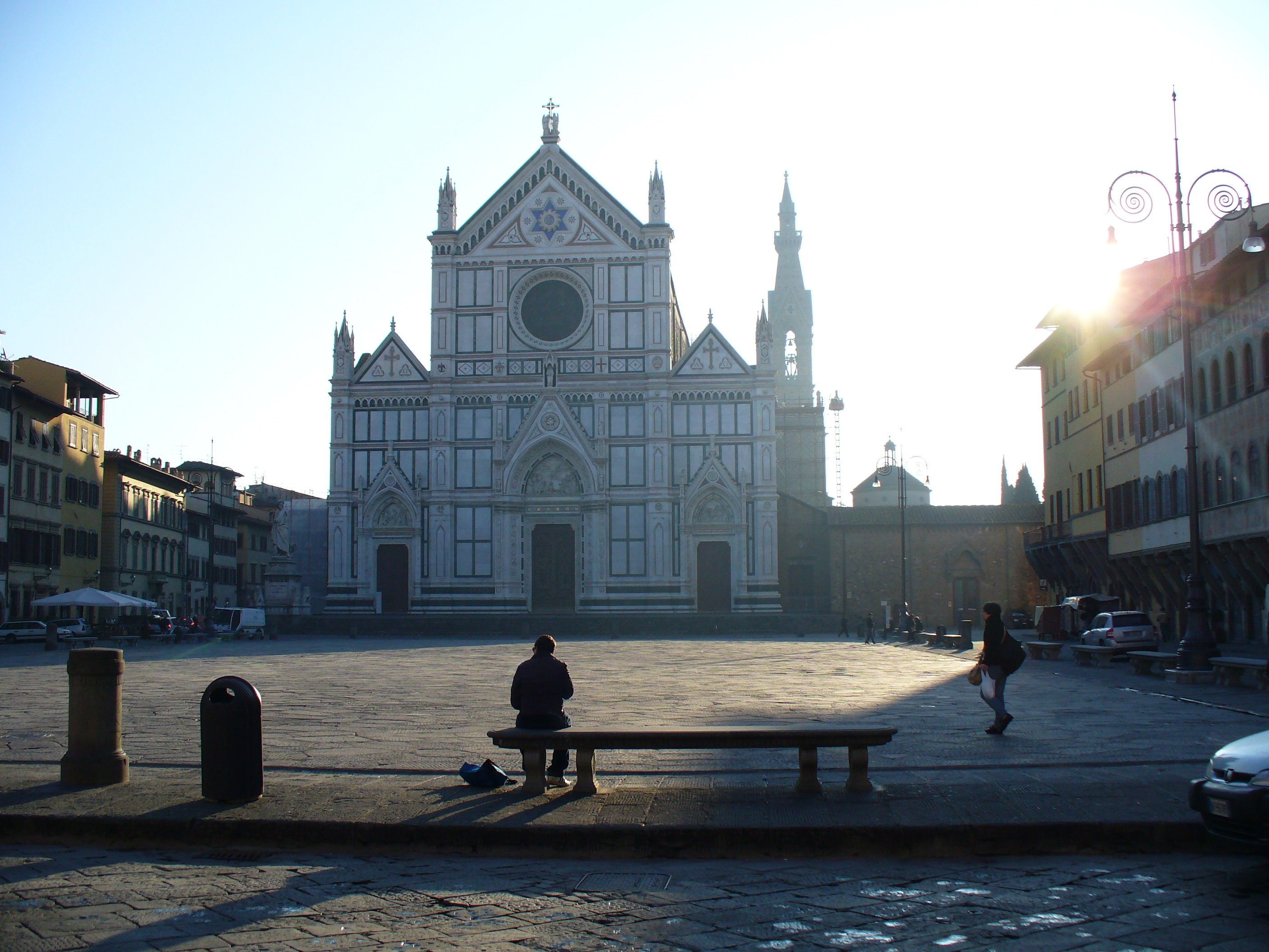 Santa Croce Square Firenze